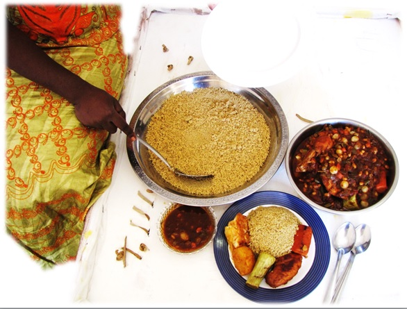 Sauce with chicken and vegetables accompanying steamed millet couscous (thièré in Wolof - names vary between languages). Note: Millet produces a seed with a hard and inedible hull. It must be milled by hand (laborious mortar and pestle pounding) or by machine to remove this hull before it can be ground into millet flour. Millet-based recipes in Africa are based on sifted millet flour or rolled millet flour pellets, not on unprocessed millet seeds. This is an image of food from Senegal